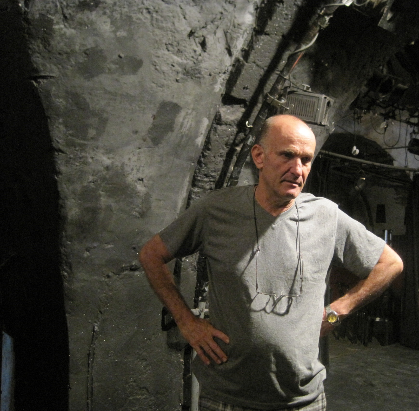 Yigal Azrati